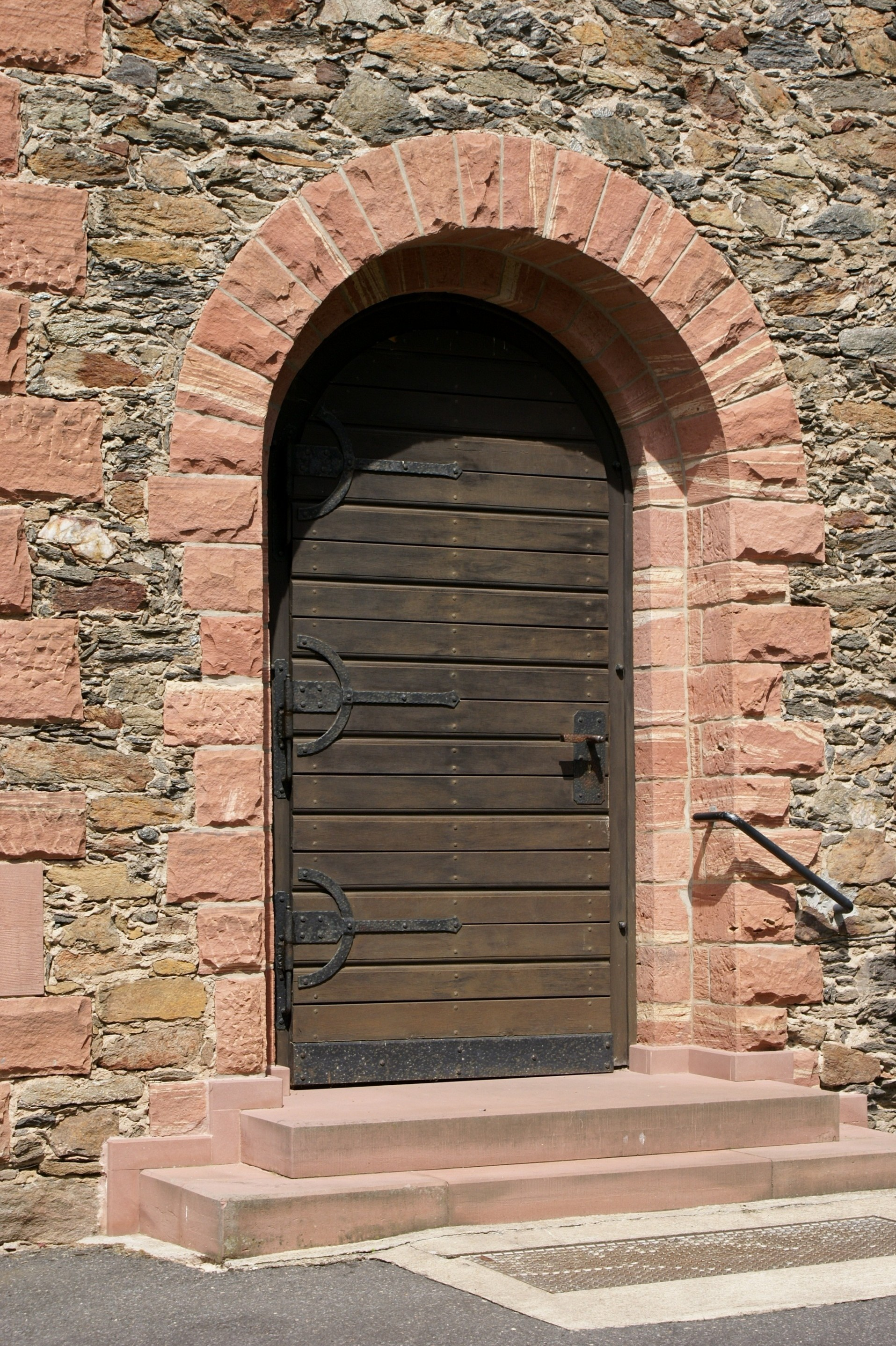 The well designed side entrance of the local church of the village Reichenbach, that is part of Markt Mömbris